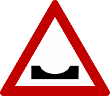 Diagram of road signs of Luxembourg